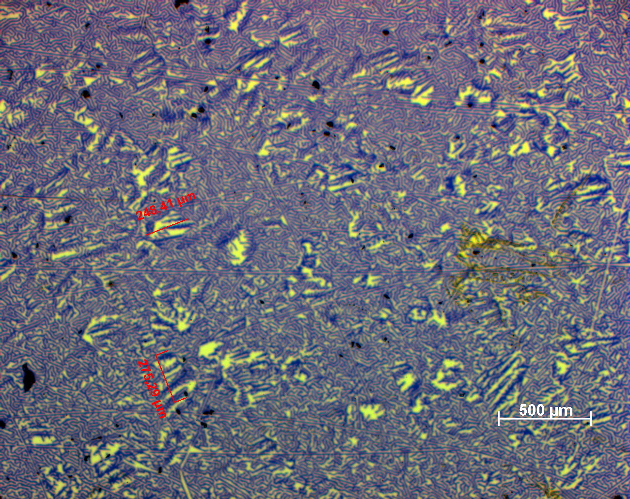 Microscope inspection of domain orientation in non grain oriented steel with magneto-optical sensor and polarizer microscope.